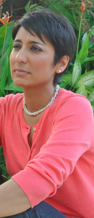 Irshad Manji, 2012